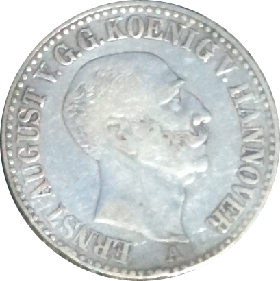 Obverse of a Hanover 1846 Thaler (A mintmark = Berlin) showing the obverse and King Ernest Augustus. Welter 3139.